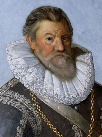 Rigsadmiral Claus Daa (1667-1664)